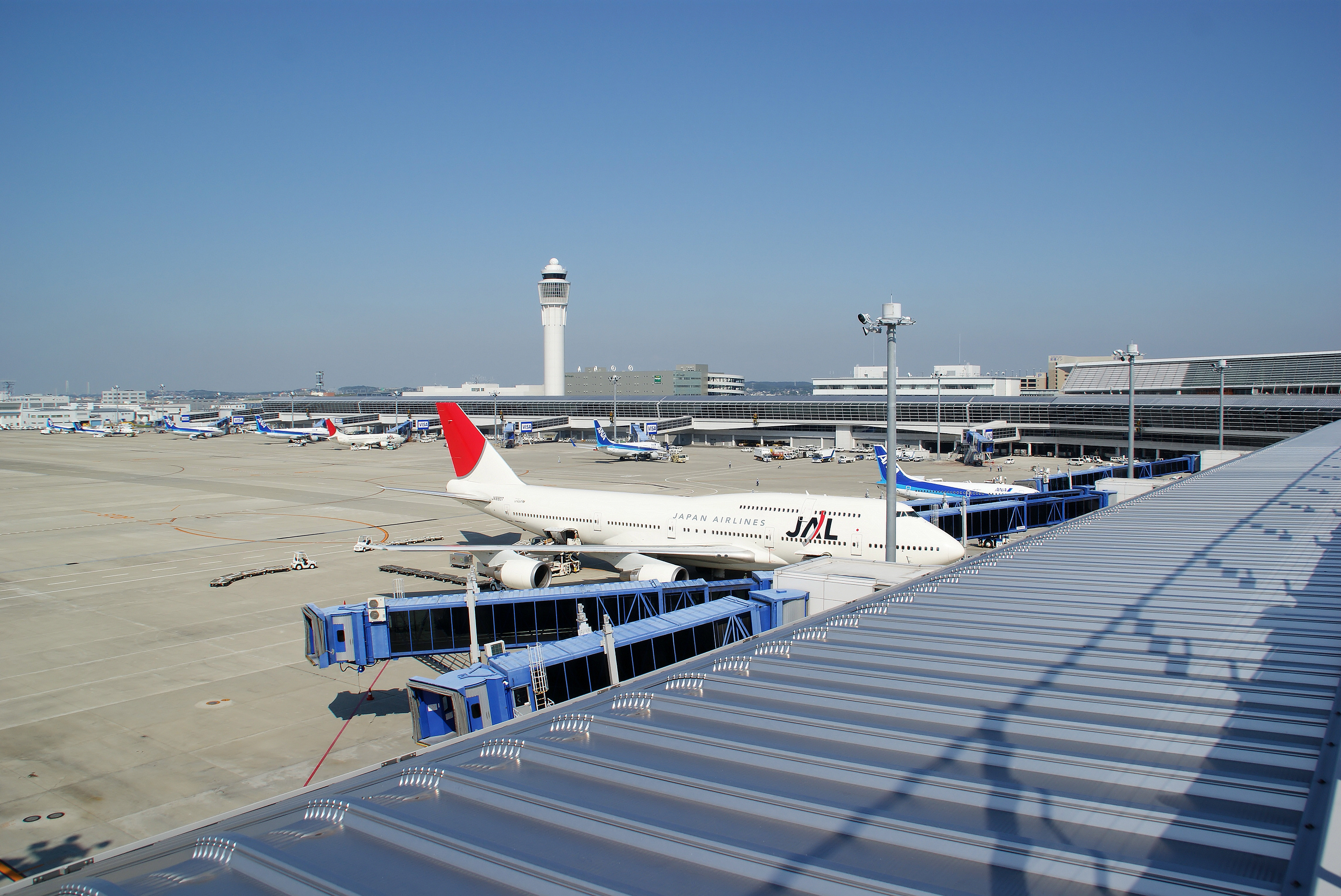 PBT of North Wing, Chubu Centrair International Airport.(Tokoname City, Aichi Prefecture, Japan)